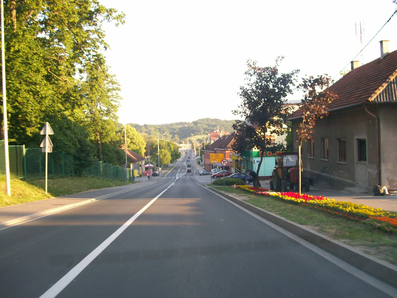 Novi Marof center